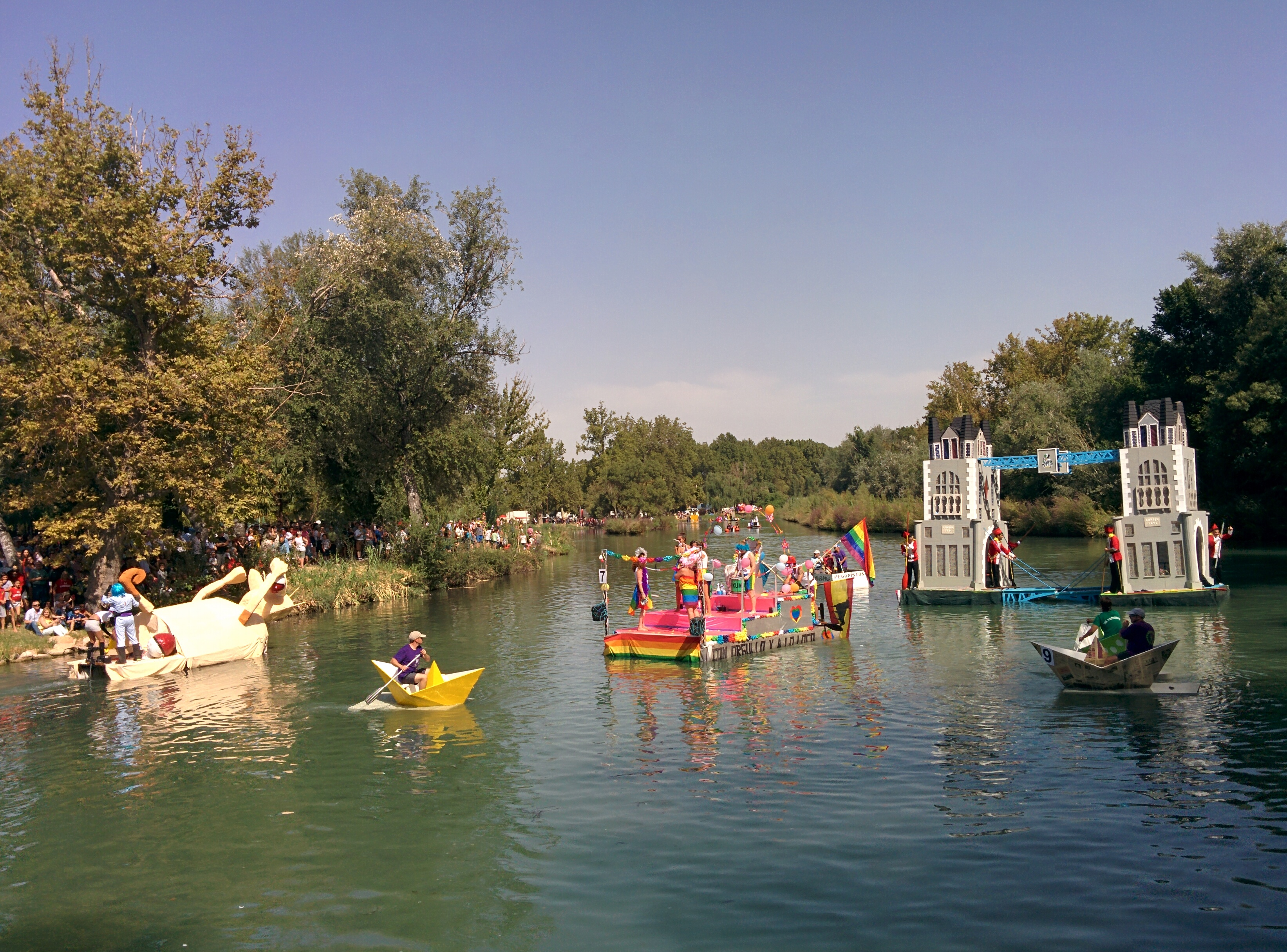 This is a photography of a Folklore festival in Spain (Wikidata id Q23199370).